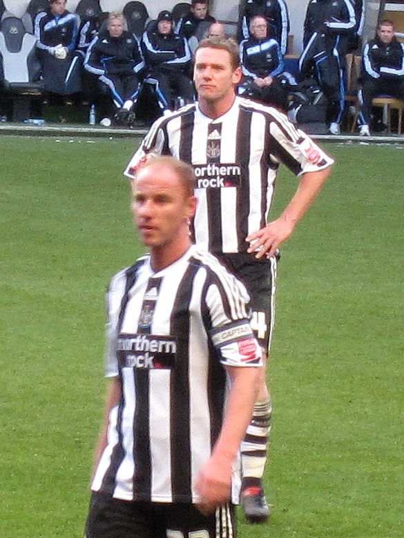 Cropped version of source, depicting Kevin Nolan (top) and Nicky Butt (bottom) playing for Newcastle United against Middlesbrough in December 2009.